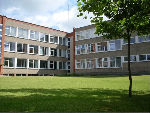 Didžiasalis "Ryto" secondary school.